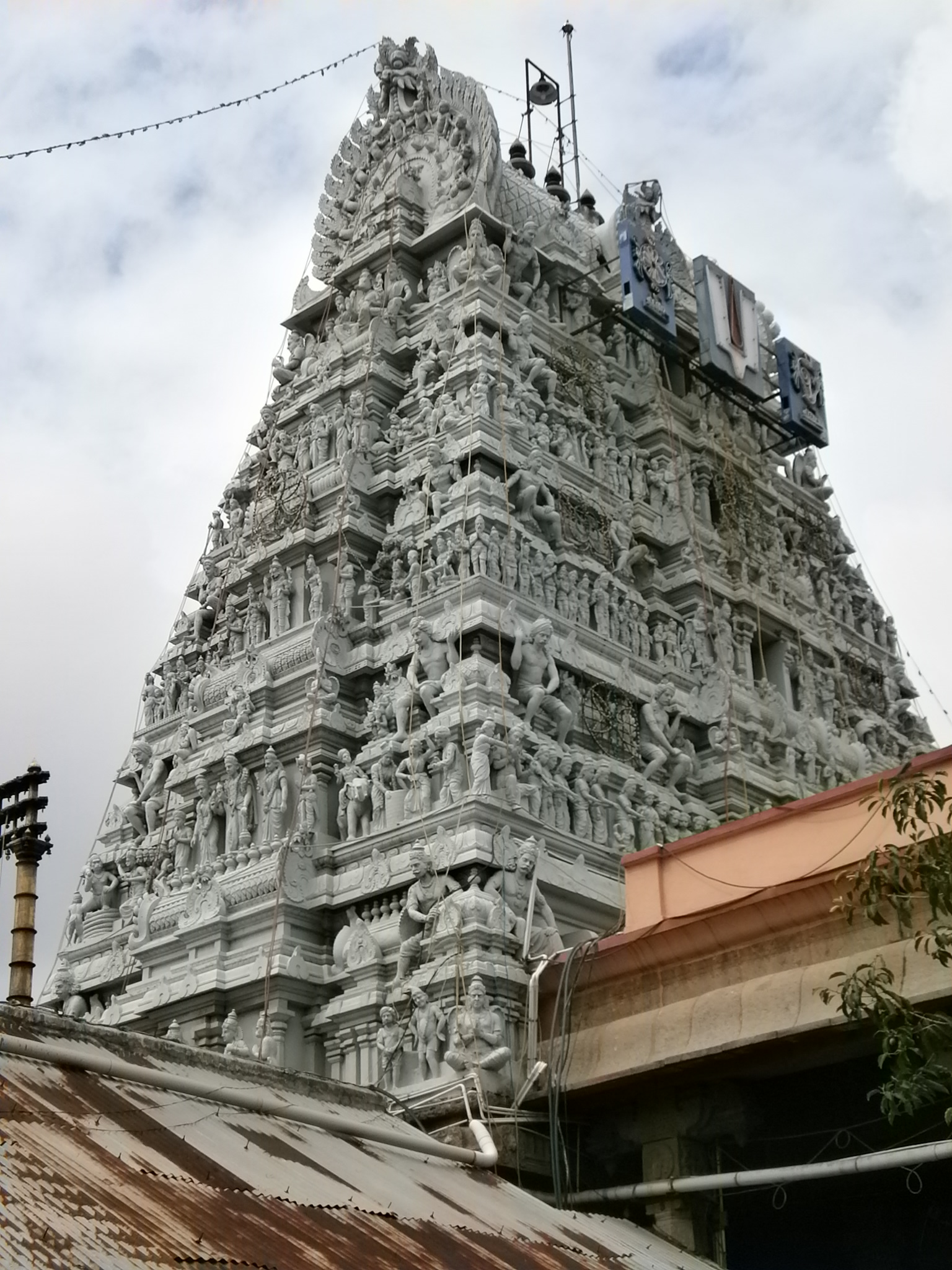 Parthasarathy Temple Triplicane Chennai Photo - 3